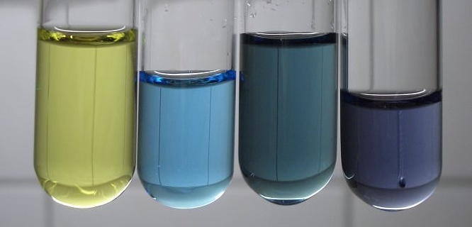 Oxidation states of vanadium in acidic solution. From left to right the oxidation state goes from +5 to +2.